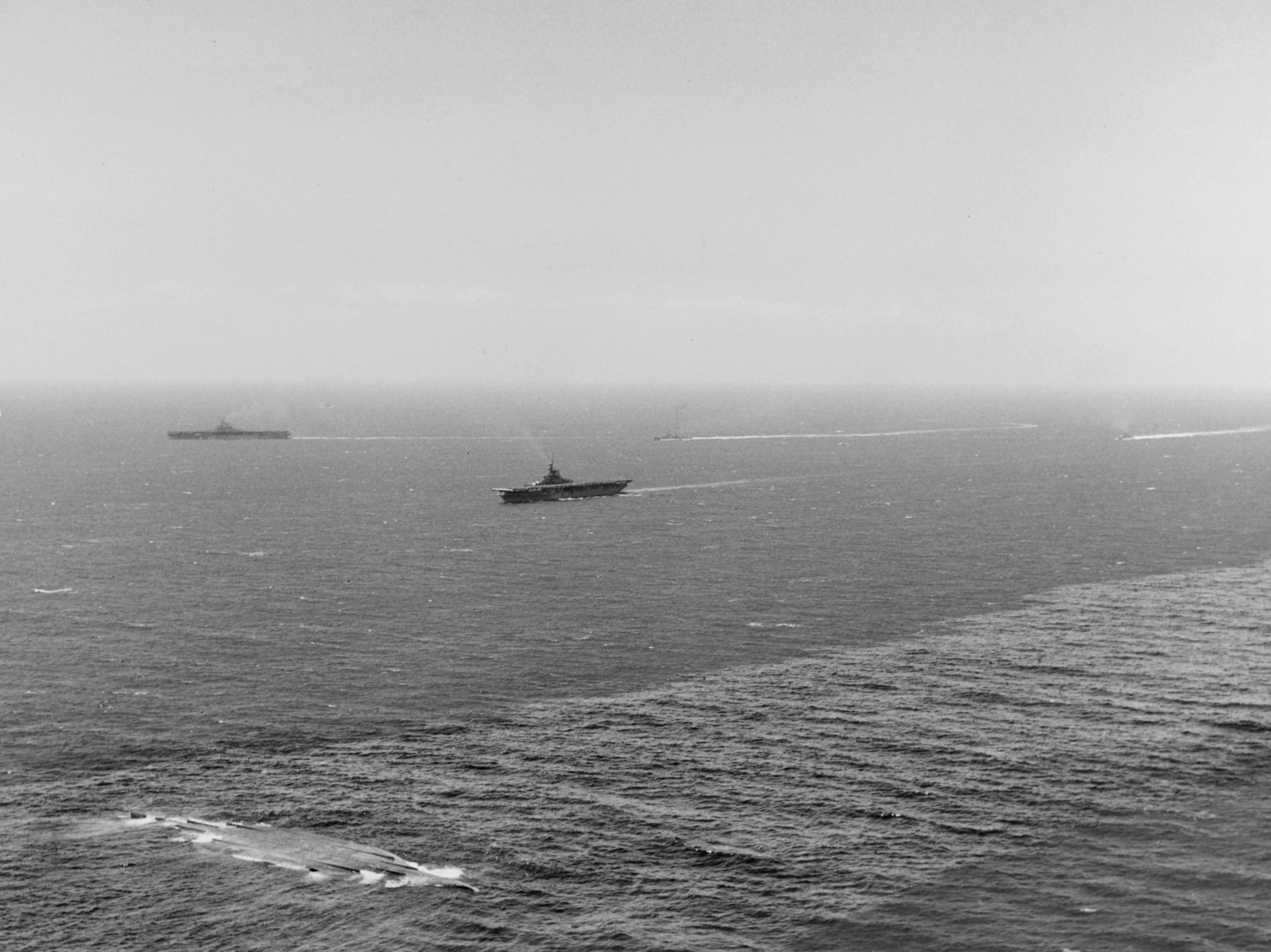 The U.S. Navy aircraft carriers USS Boxer (CV-21) and USS Princeton (CV-37) steam past the capsized hull of the battleship USS New York (BB-34) off Hawaii (USA) on 8 July 1948. New York was sunk by U.S. Navy ships and aircraft in armament tests. Note the oil slick from the sinking battleship.